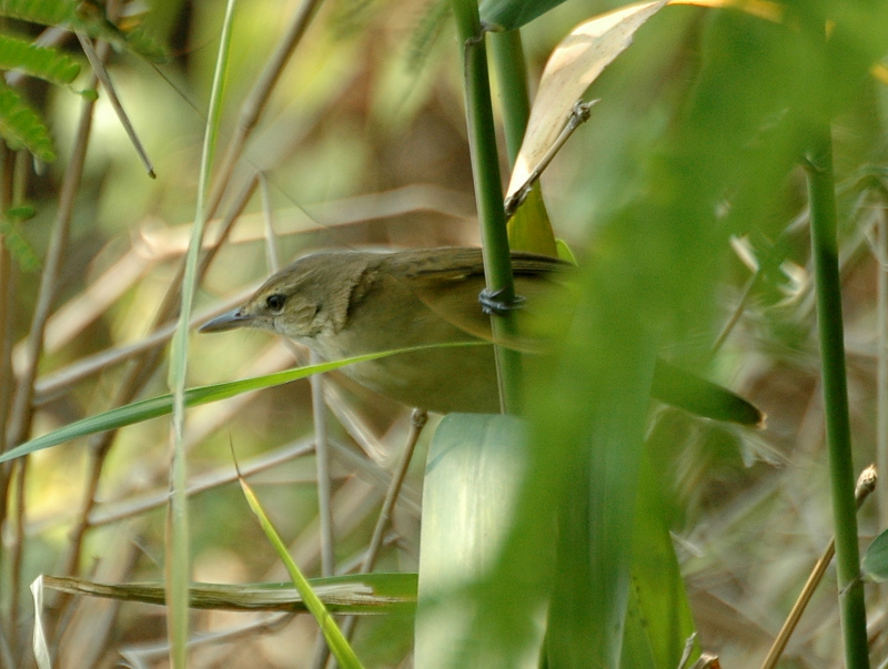 Oriental Reed-warbler (Acrocephalus orientalis) Mai Po, Hong Kong